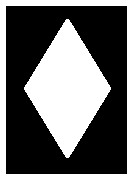 Formation sign for the 48th (South Midland) Division during the First World War. Starting in 1918, the symbol was painted on the helmets of the division's troops. Regimental badges were superimposed on the white diamond (Chappell, p. 24). Chappell, Mike (1986) British Battle Insignia 1914-18, Men-At-Arms, 1, London: Osprey ISBN: 0-85045-727-0.